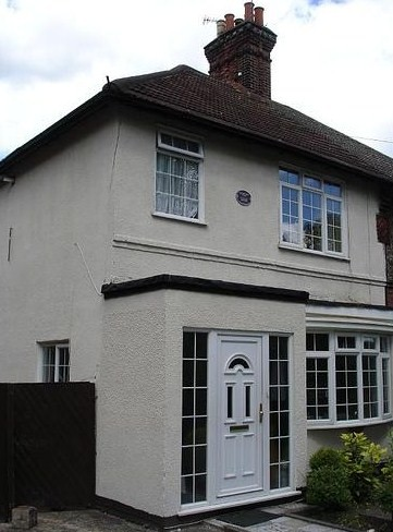 Maybury Hill. The home of the "H.G.wells" in the novel war of the worlds